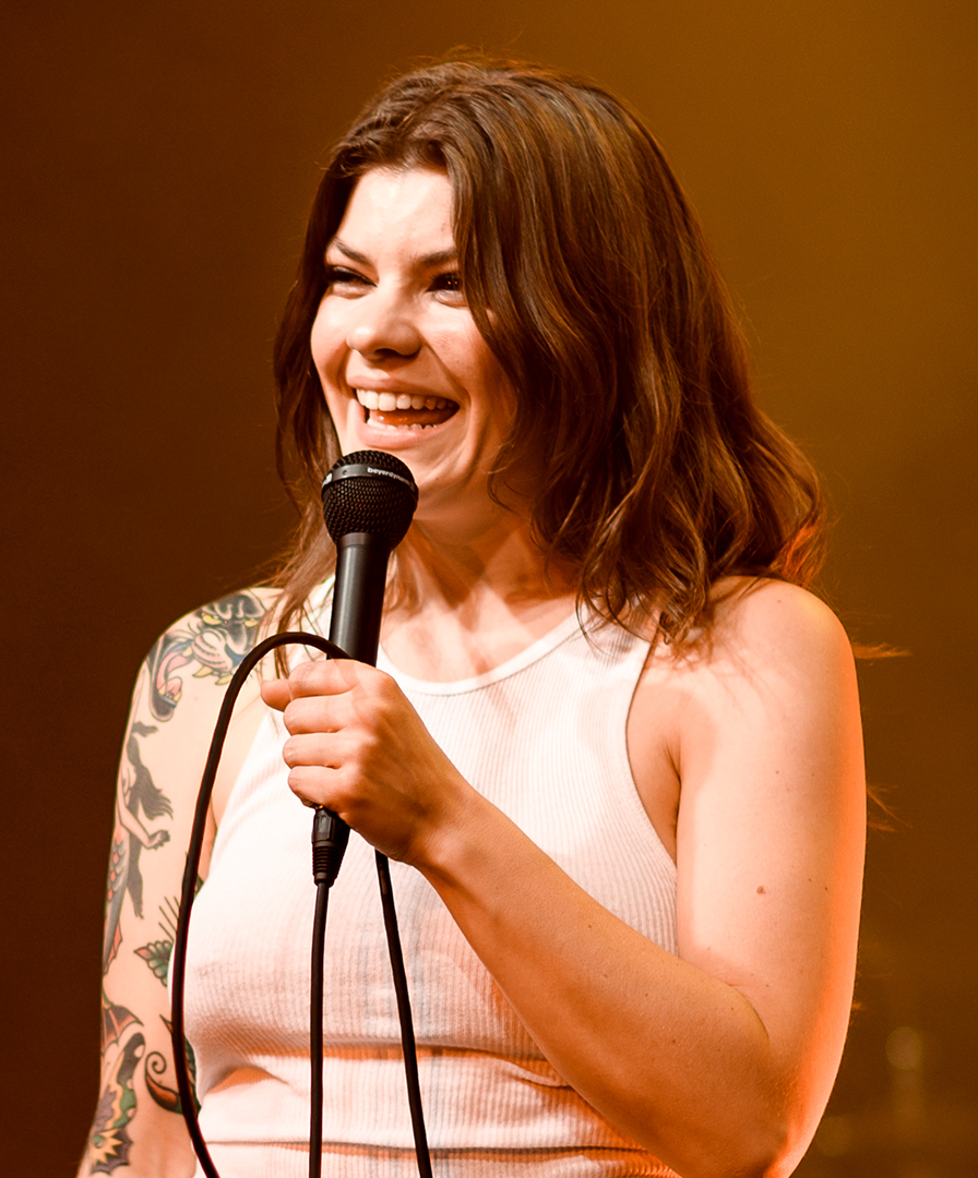 Donna Missal performing live at the El Rey theatre in Los Angeles, California, on Friday, March 29, 2019.